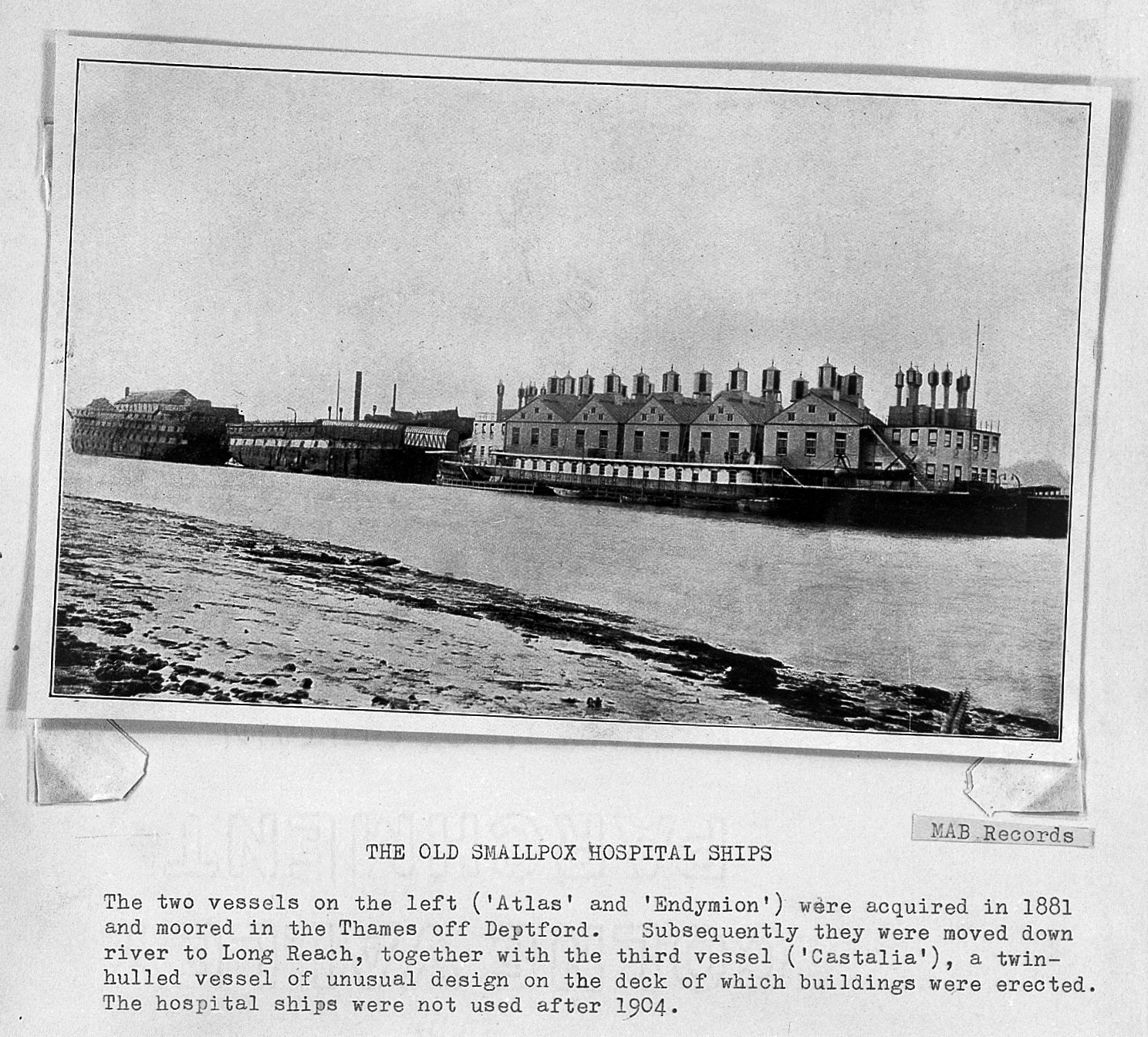 The old smallpox hospital ships. General Collections Keywords: Institutions; Great Britain